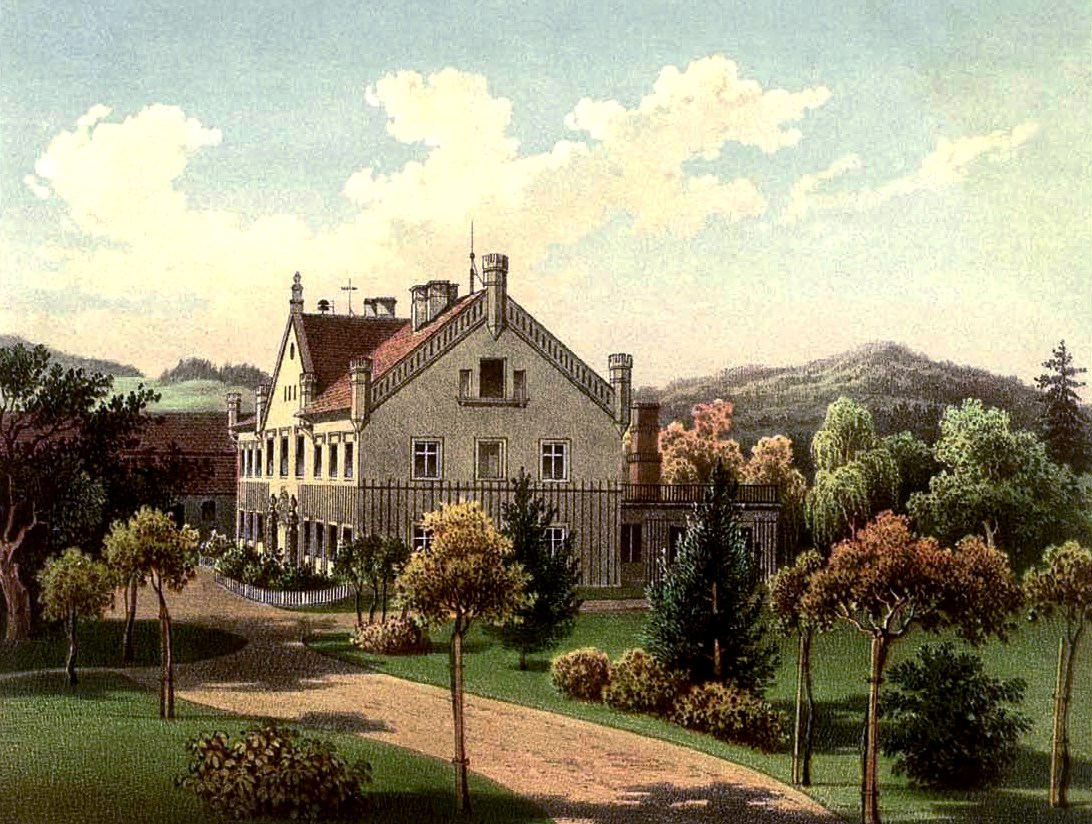 Former manor in Dębrznik, Poland